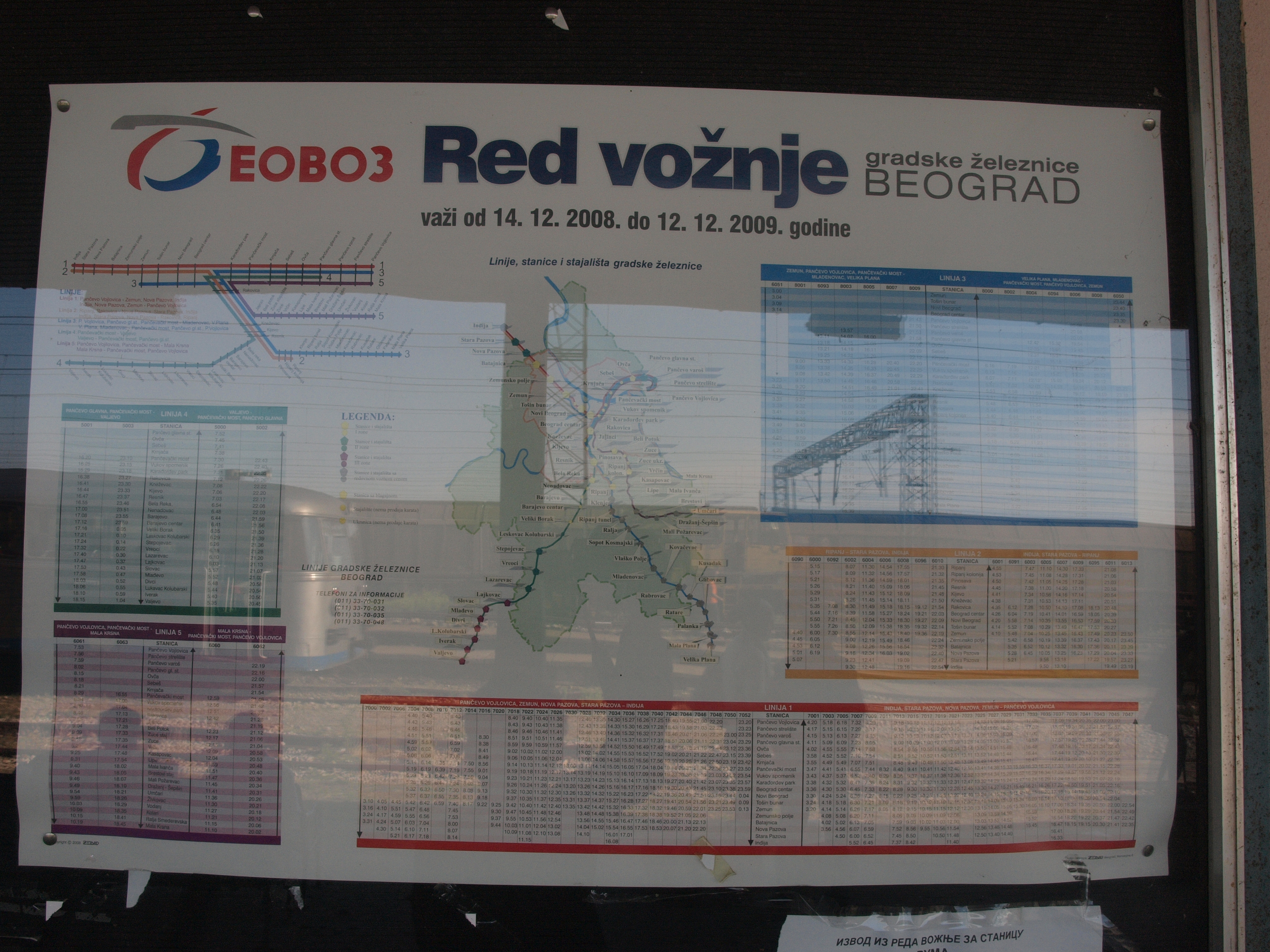 Beovoz time table